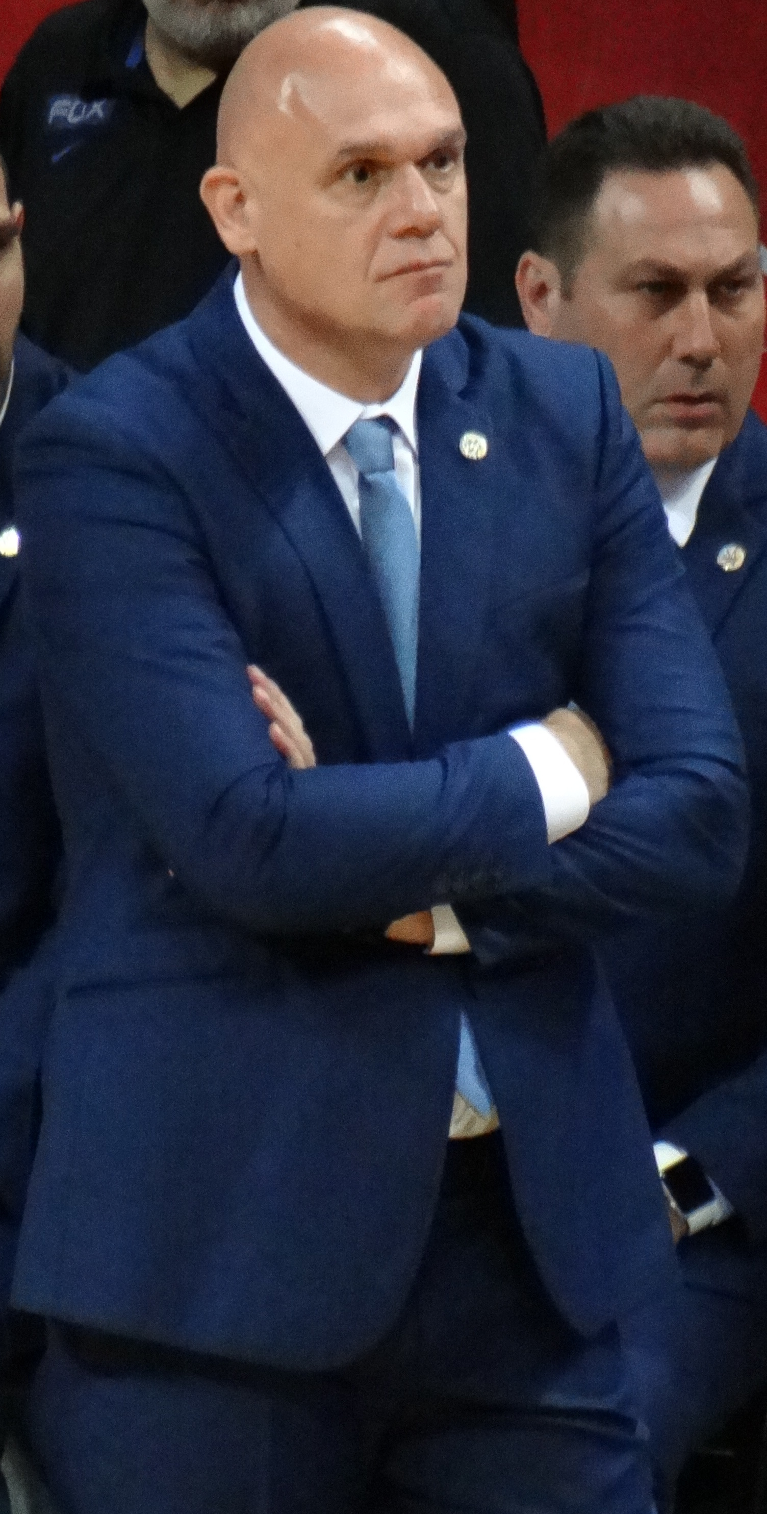 Neven Spahija Maccabi Tel Aviv B.C. EuroLeague 20180320